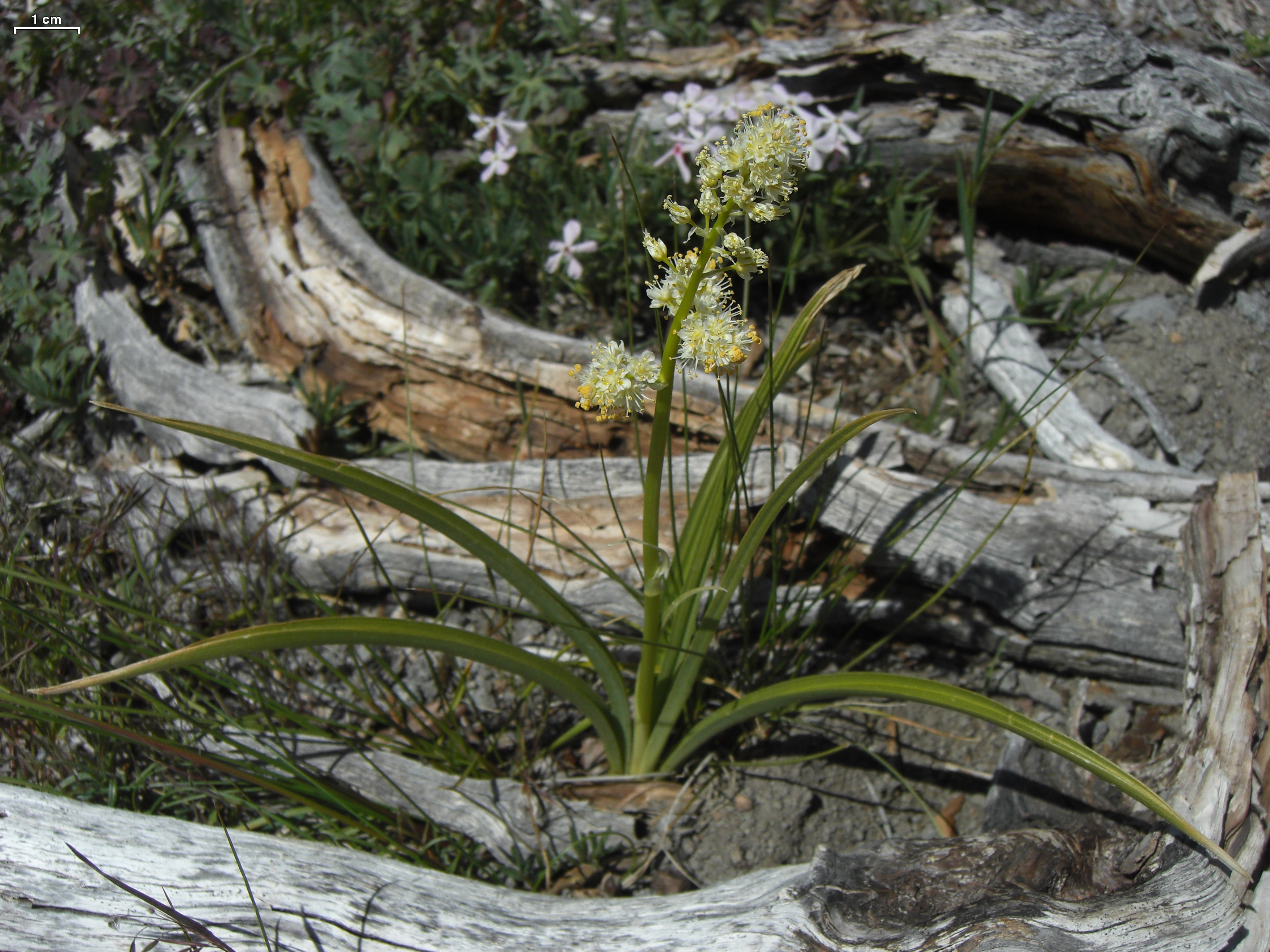 Hunter Lake Trail, Reno, Nevada, 20140531